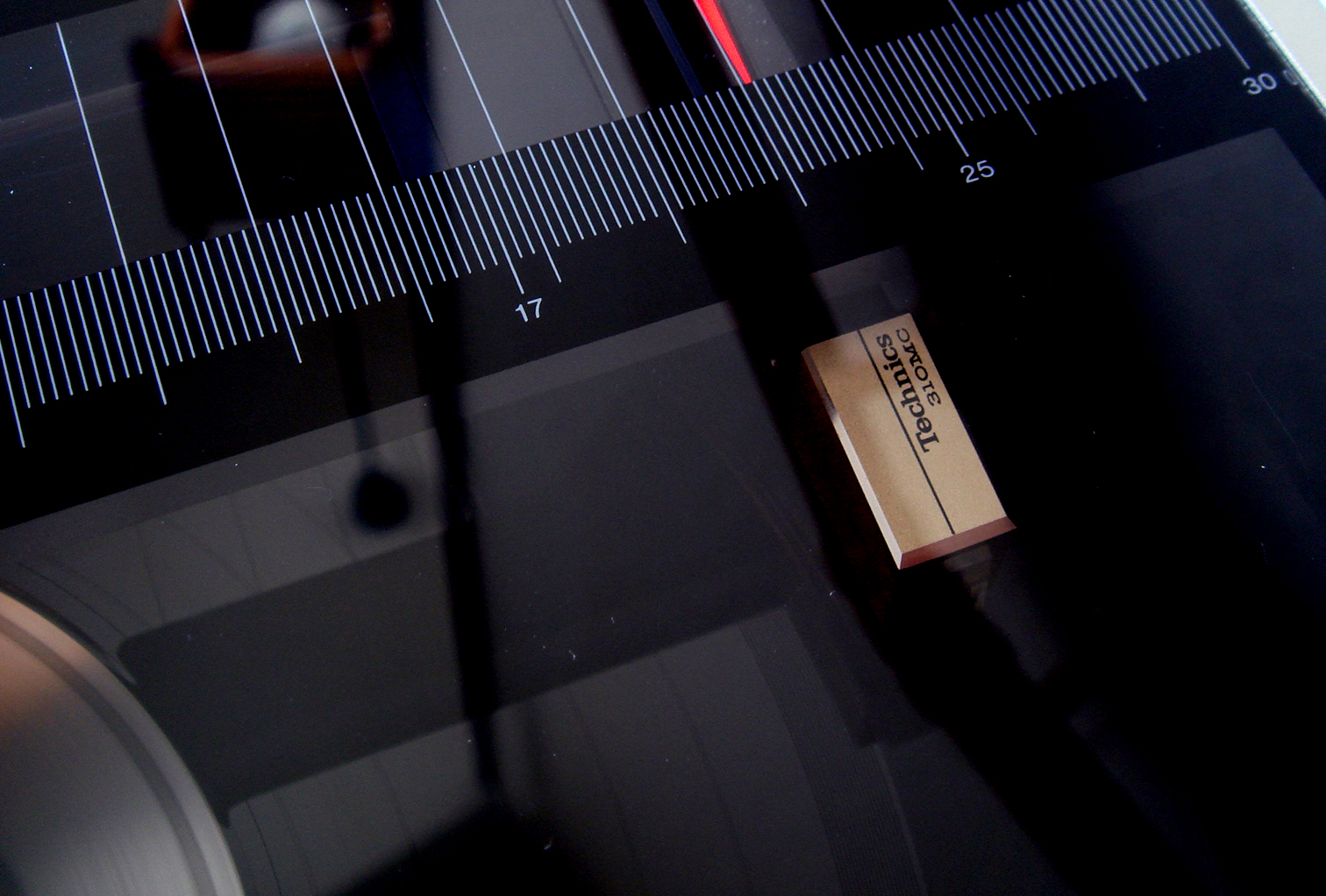 Picture of Technics SL-10, ser.DA26-04M182